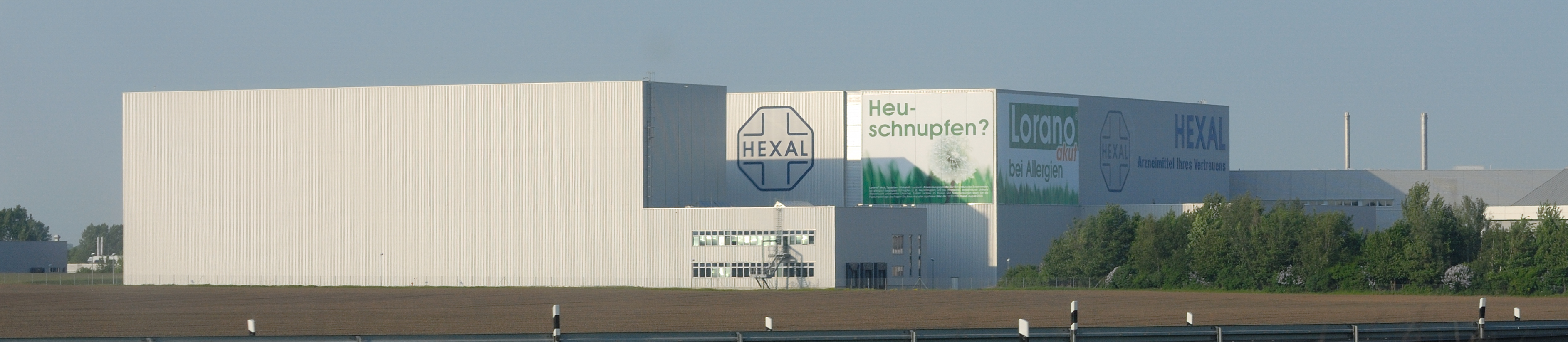 A building of Salutas Pharma GmbH, Barleben near Magdeburg. Salutas is a Hexal AG subsidiary and produced 10 billion pills in 2007. Road shot from A 2 highway.